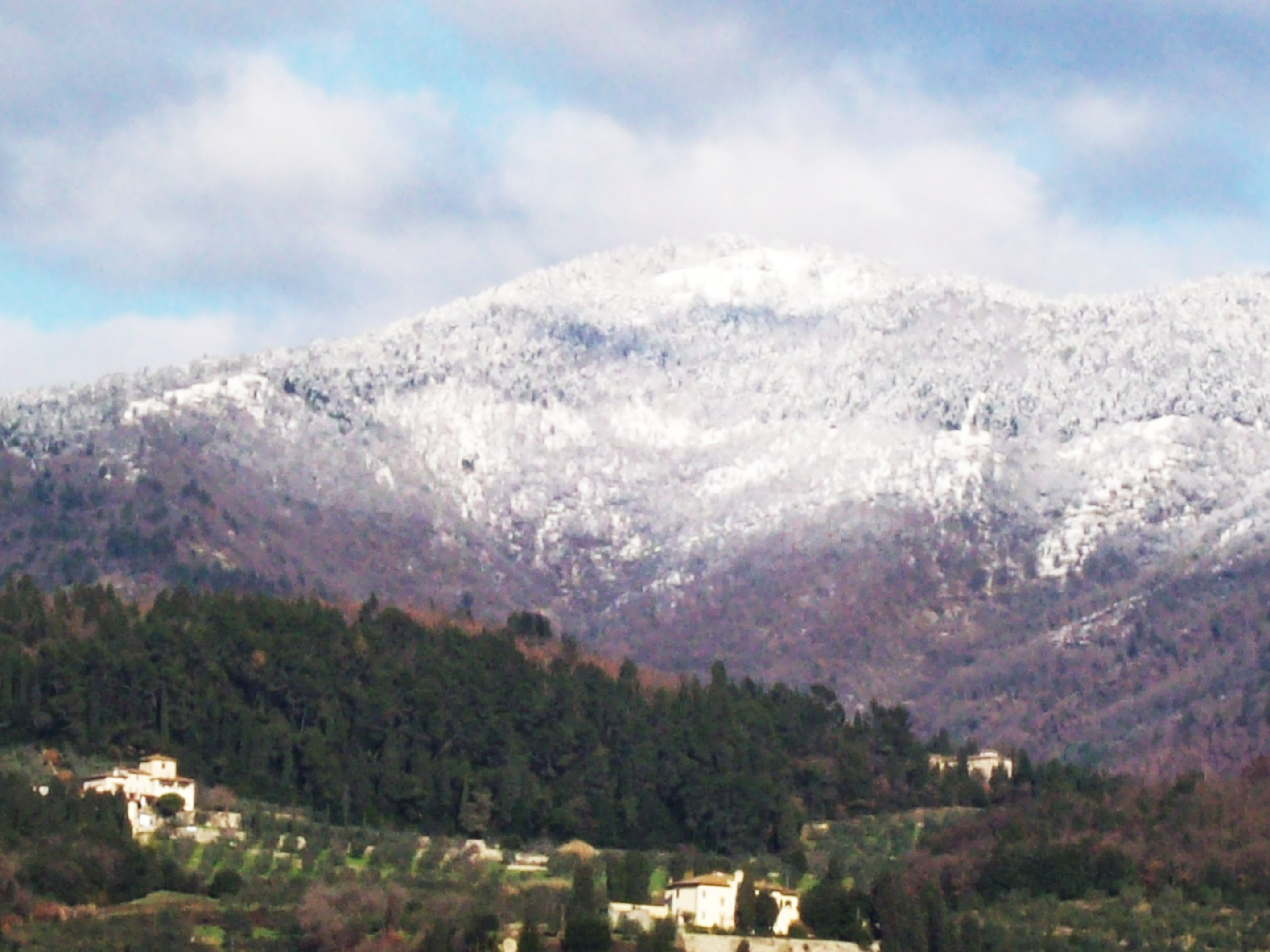 monte morello - sesto fiorentino